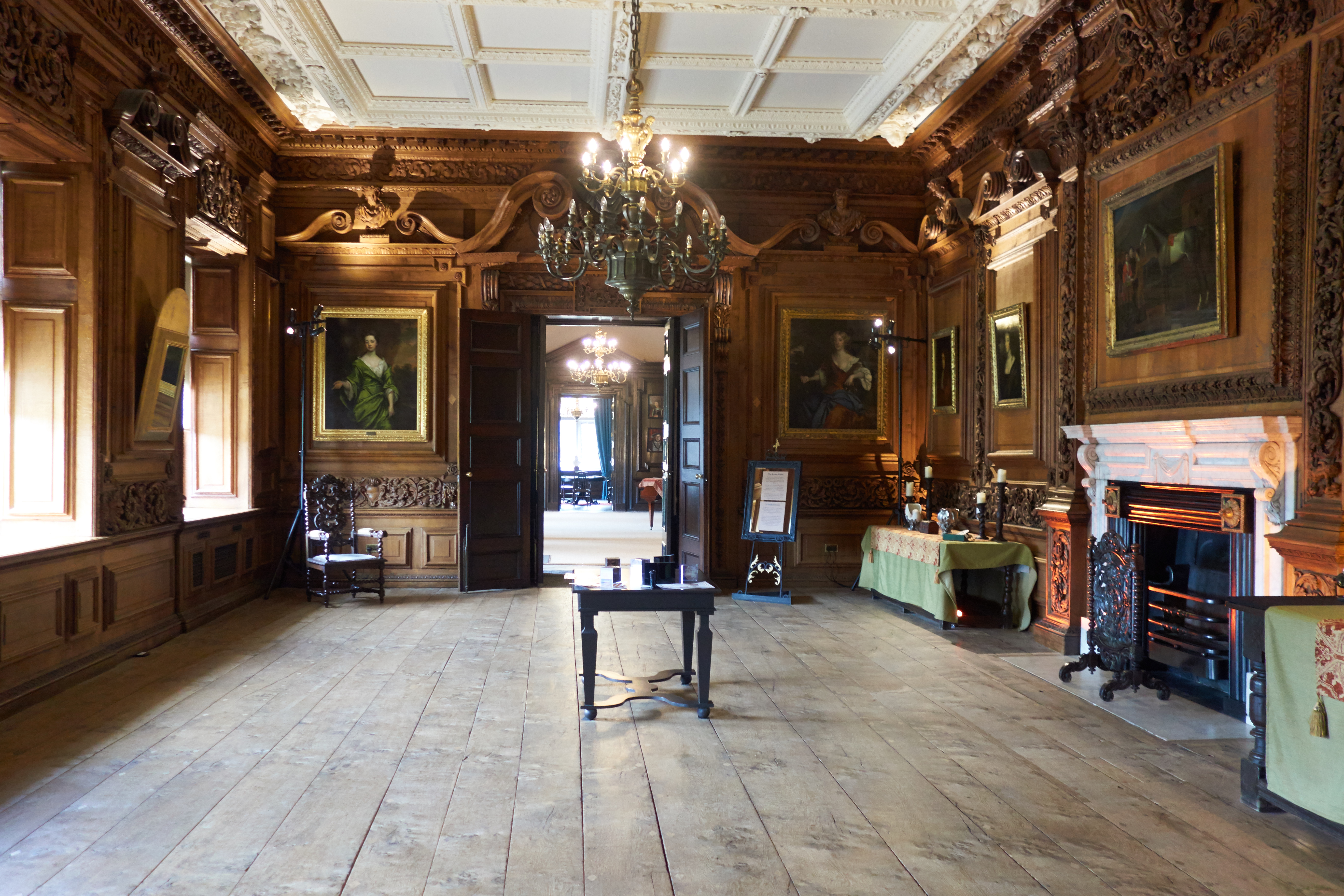 Tredegar House, main hall